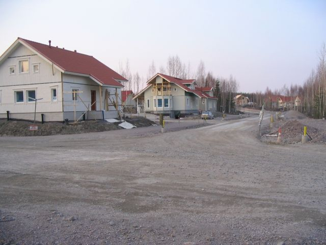 Virrenkulma in Kerava, Finland